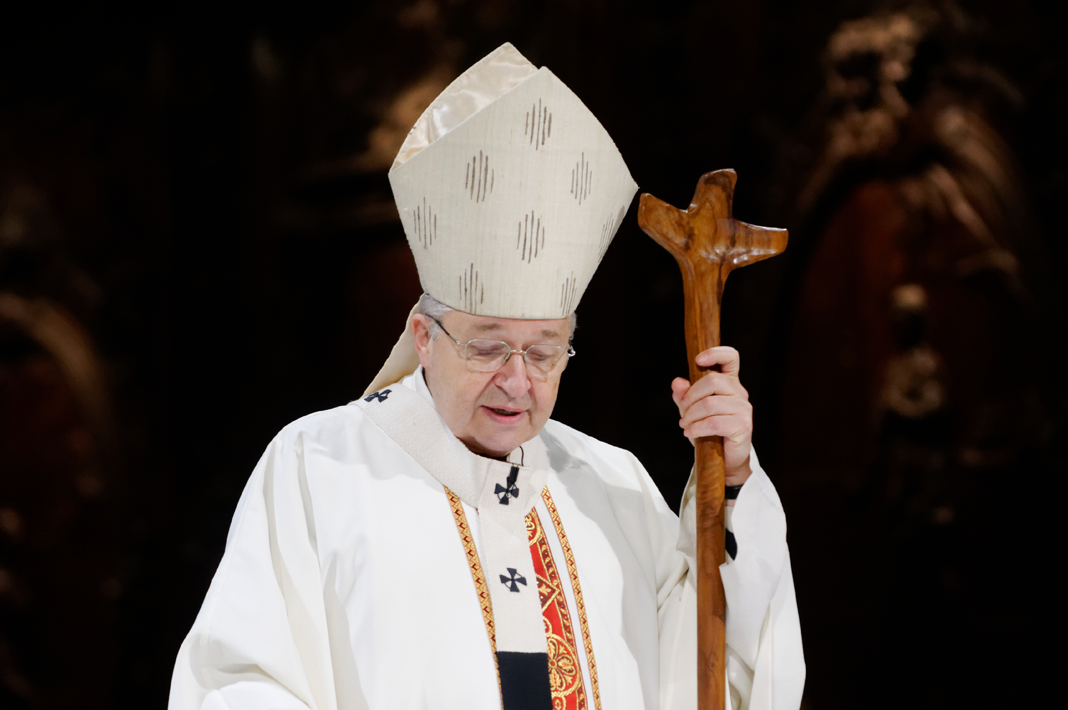 Mgr André Vingt-Trois about to give the solemn blessing. Île-de-France students' mass in Cathedral Notre Dame de Paris.